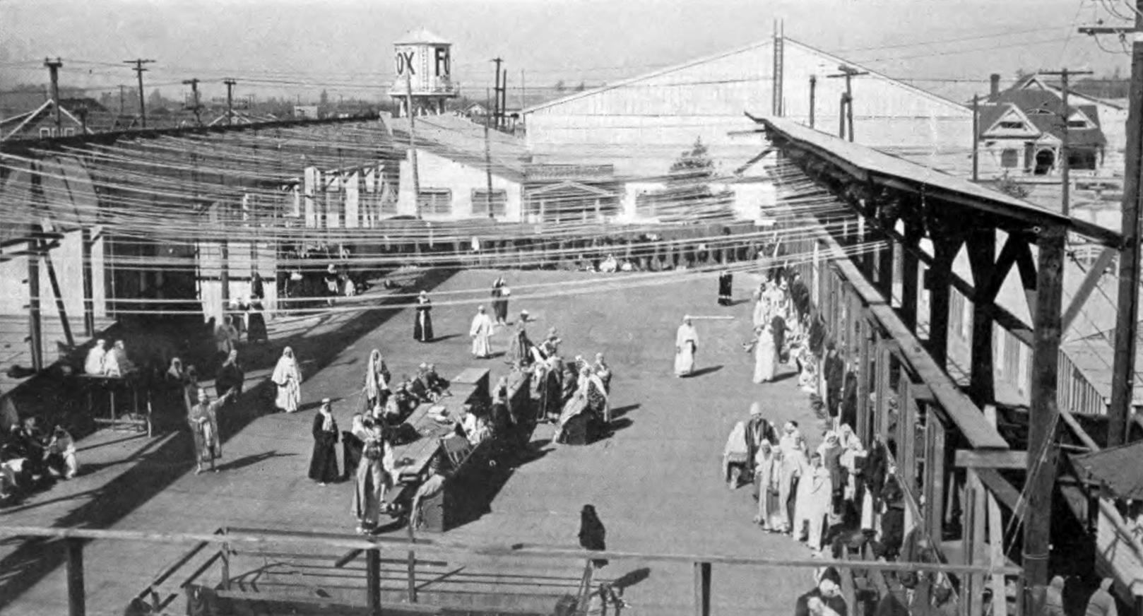 Photograph of Fox Studio Caption reads as follows: The large stage was used as the men's dressing room when more than 2,000 people were required to participate in the great Jerusalem street scenes embodied in the Theda Bara super-production of "Salome"